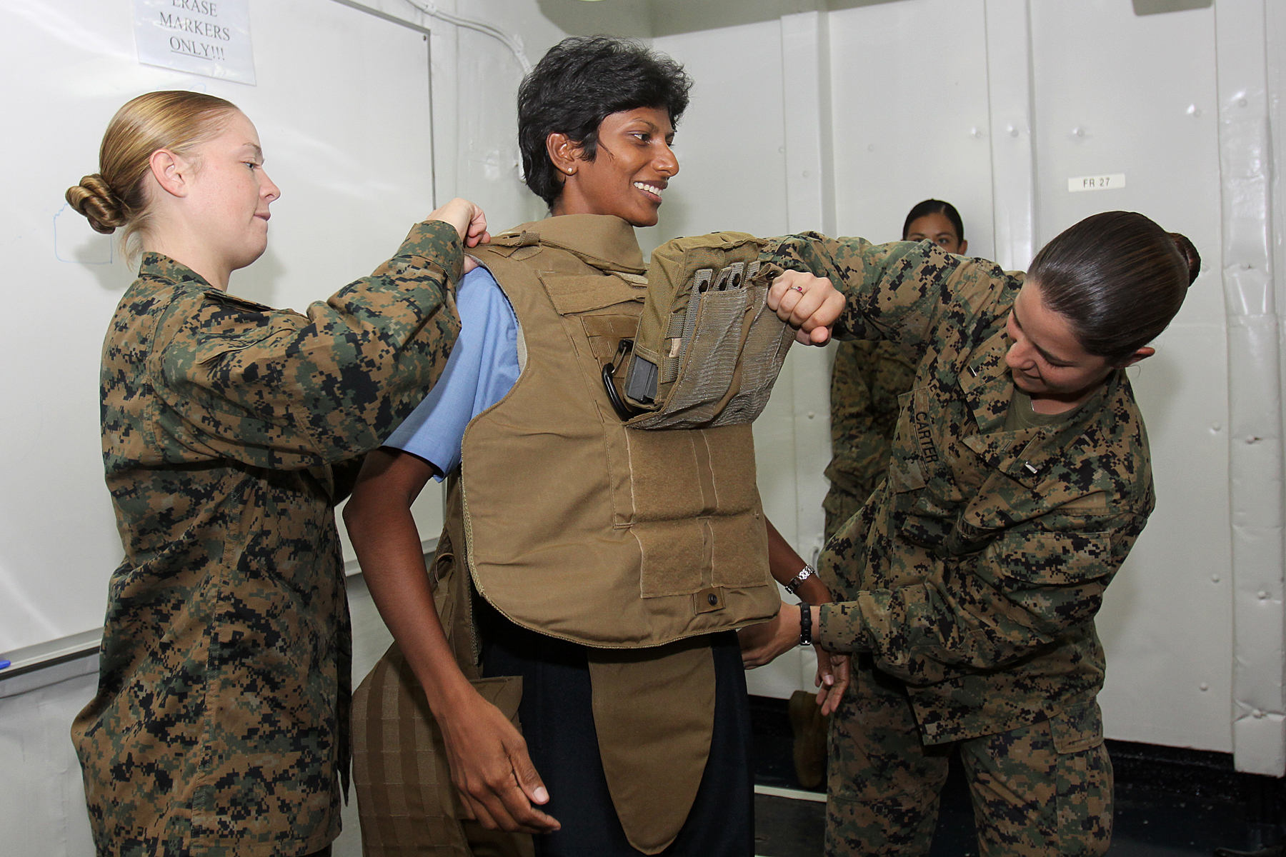 TRINCOMALEE, Sri Lanka (July 14, 2010) Marine Corps Sgt. Krystal L. Marshall, left, communications detachment maintenance chief, and 1st Lt. Briana Carter, assistant operations officer of Combat Logistics Battalion 15, help a Sri Lanka navy sailor try on a modular tactical vest in the classroom aboard the amphibious dock landing ship USS Pearl Harbor (LSD 52). The Female Engagement Team met with female service members from the Sri Lankan navy and air force during their port visit in Trincomalee, Sri Lanka. (U.S. Marine Corps Photo/Released)